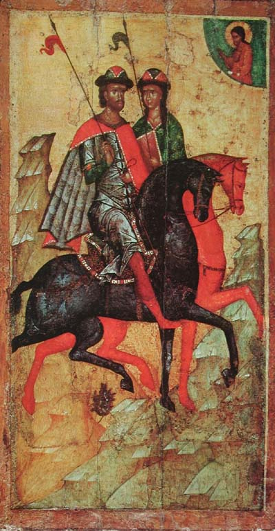 Saints Boris and Gleb astride.